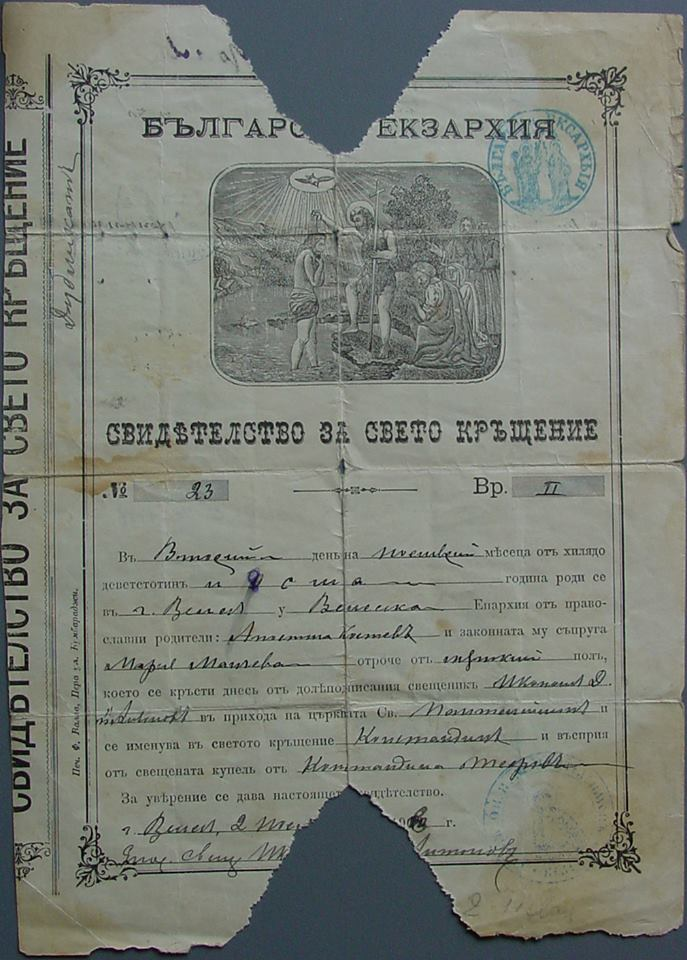 Kocho Ratsin's Birth Certificat